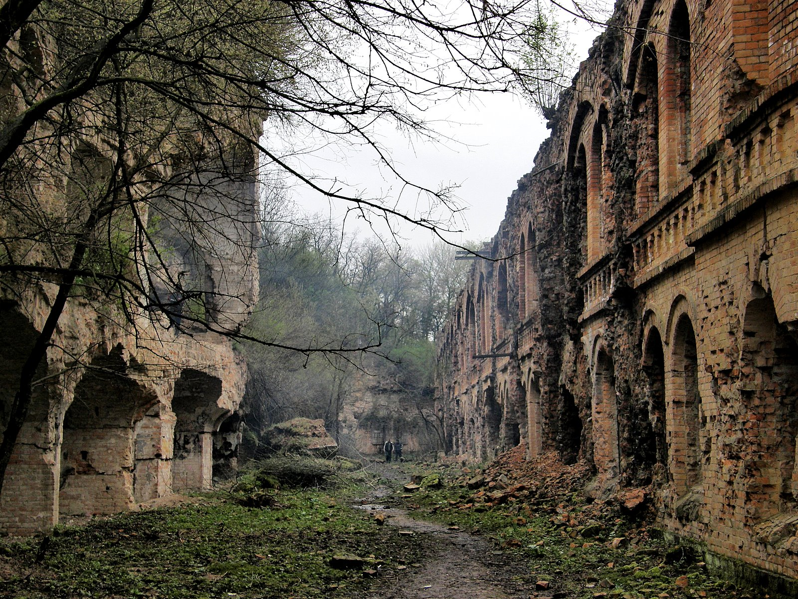 Tarakanivskyy fort